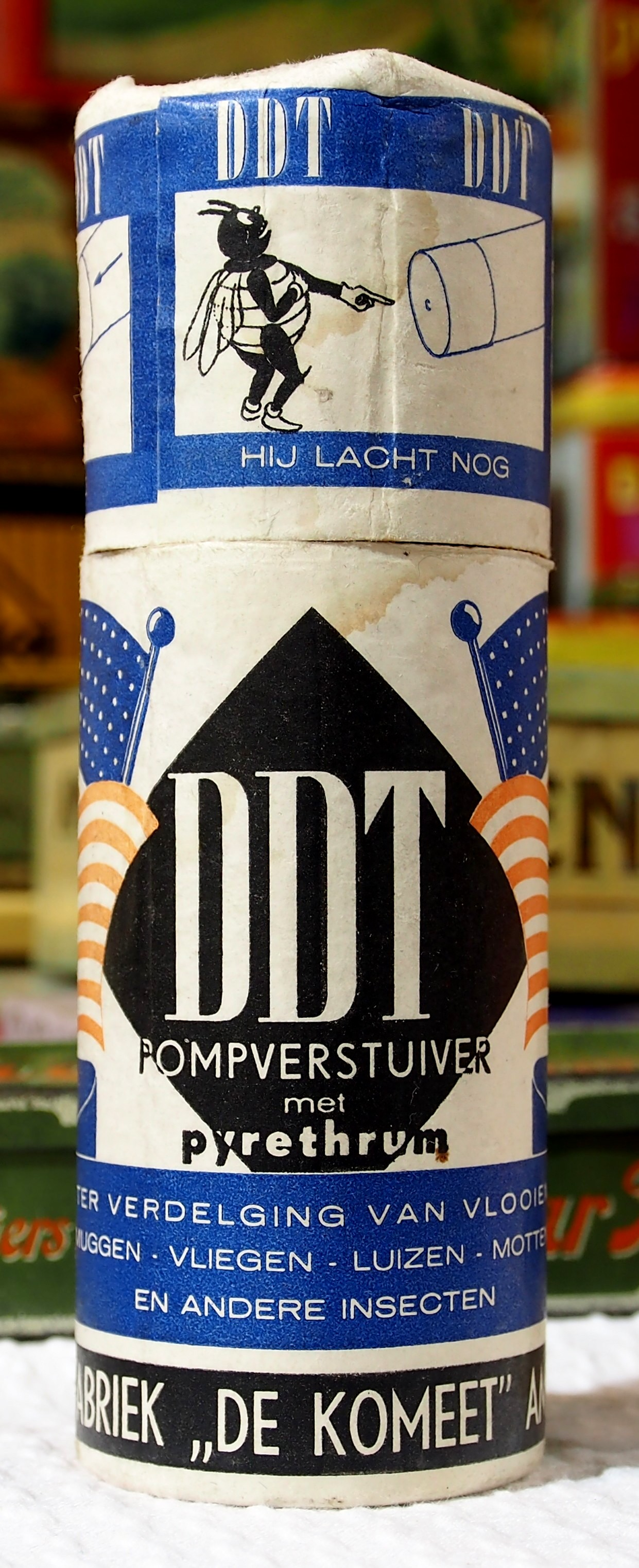 Old product that is not sold/produced anymore!